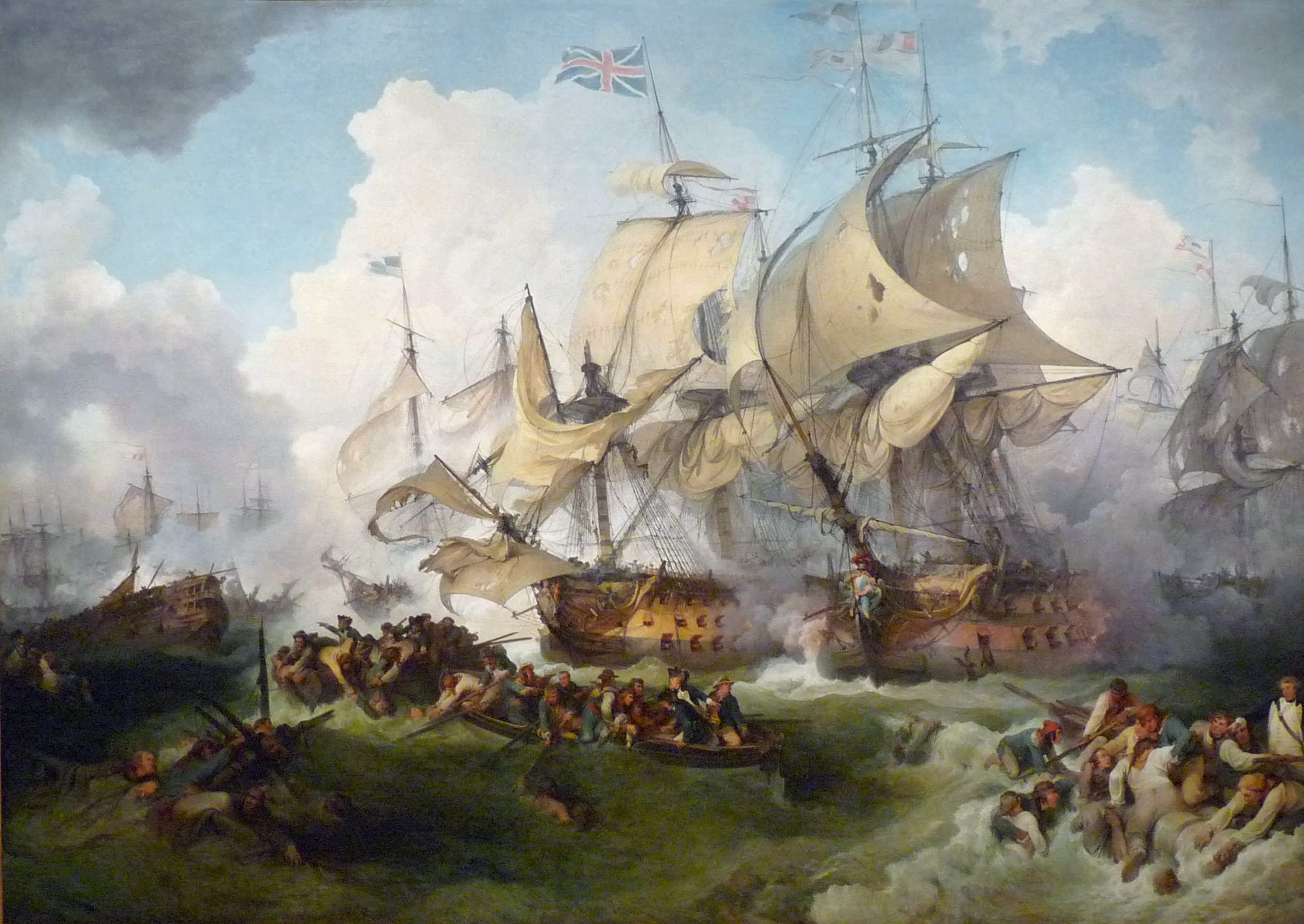 Glorious First of June: HMS Queen Charlotte vs. Océan